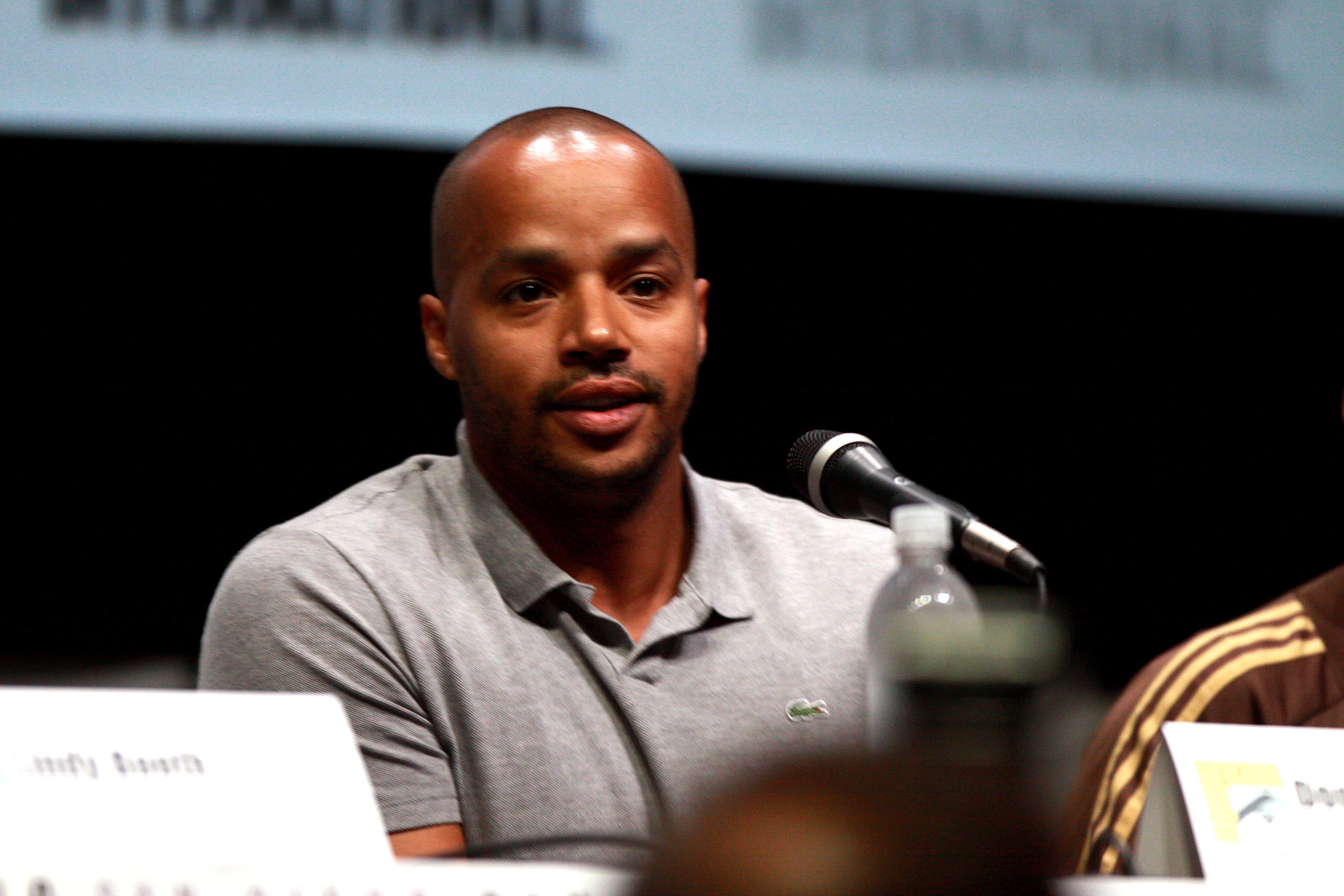 Donald Faison speaking at the 2013 San Diego Comic Con International, for "Kick-Ass 2", at the San Diego Convention Center in San Diego, California.